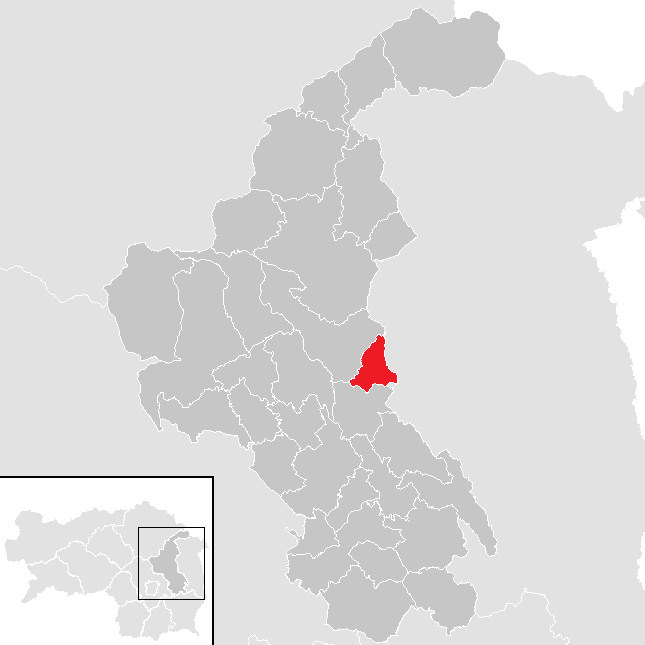 district Weiz